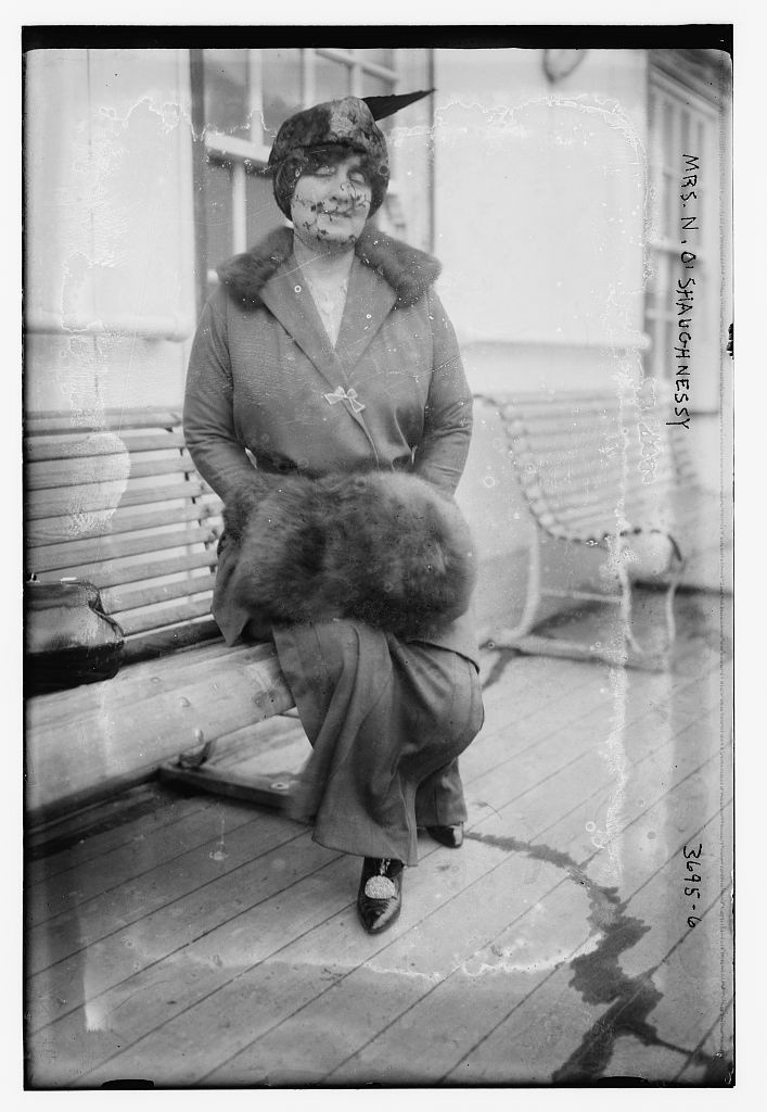 Edith O'Shaughnessy in 1915